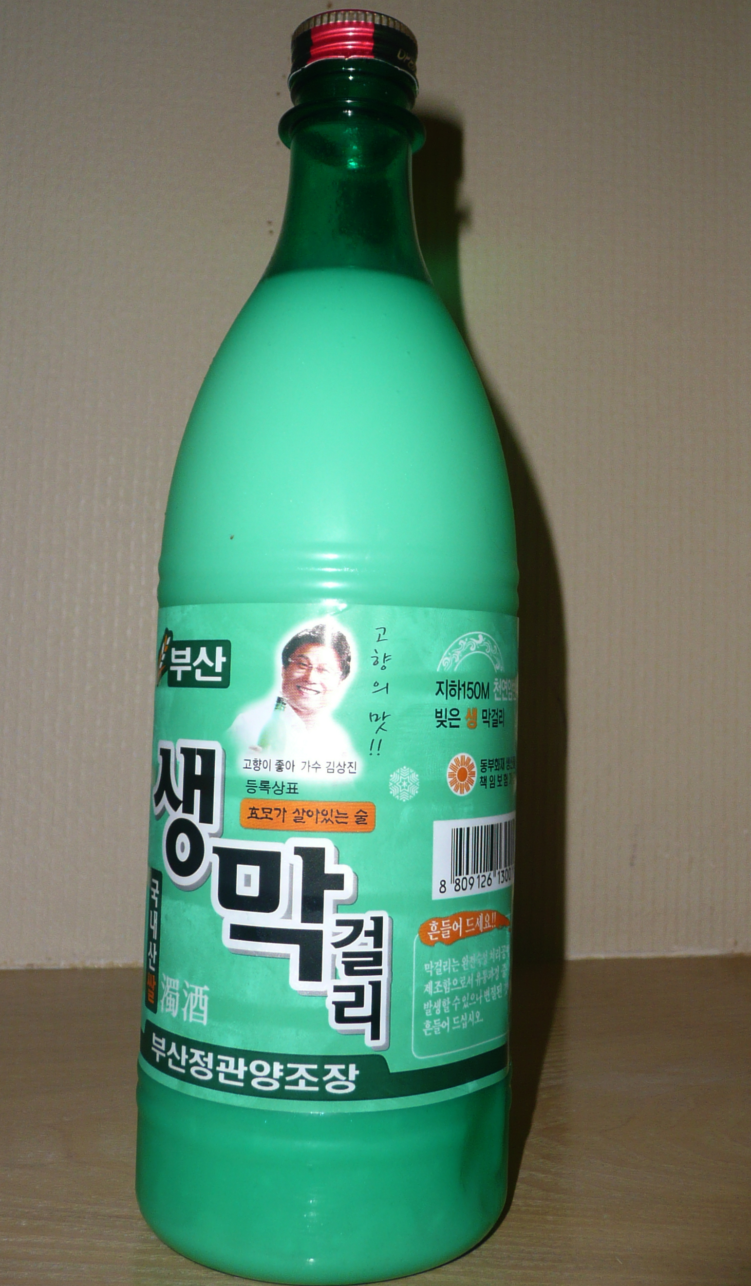 Makgeolli bottle, Korean traditional alcoholic beverage made from rice